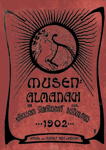 Catholic Students' Poetic Calendar 1902